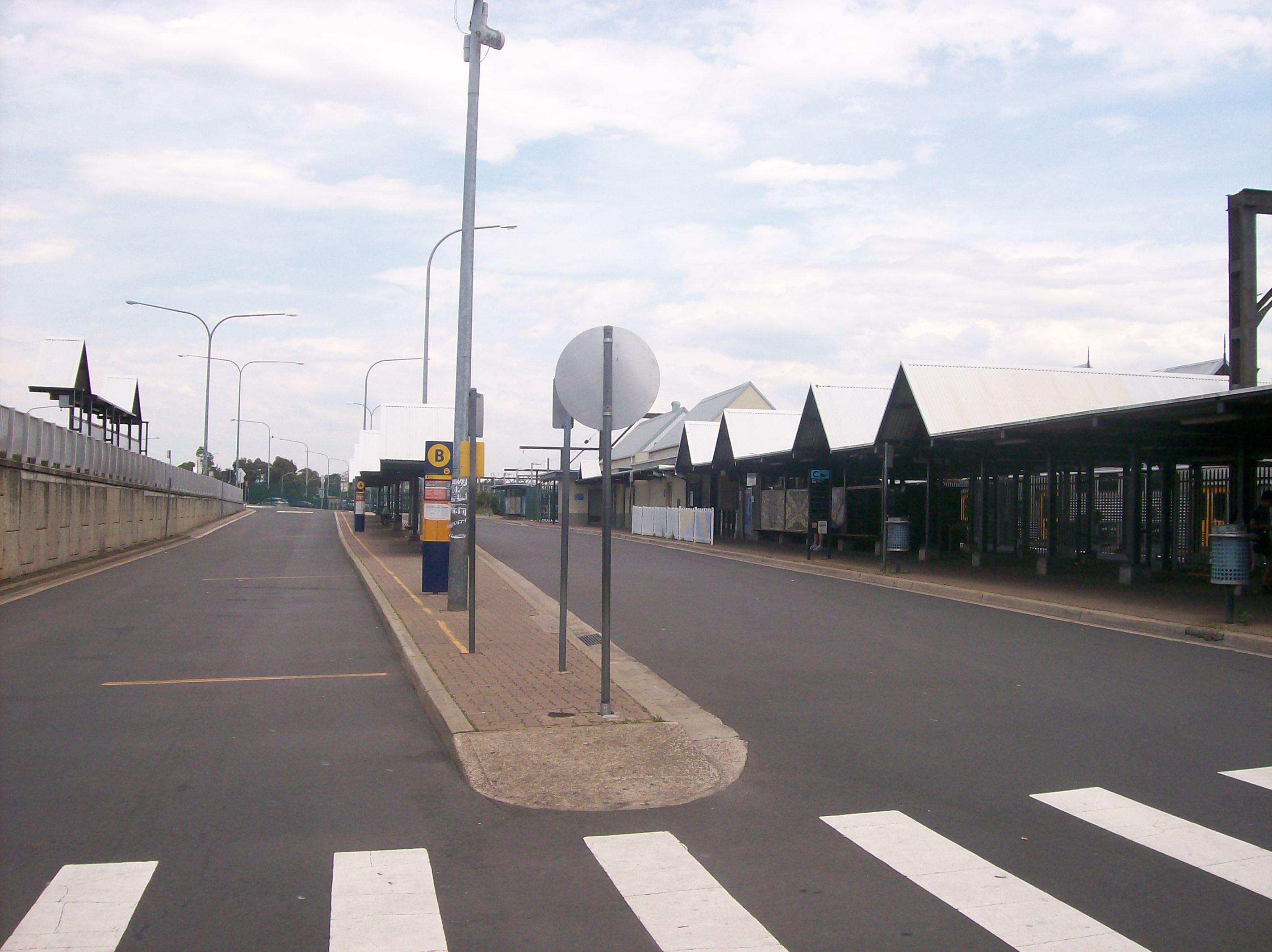 Campbelltown railway station bus stop east side